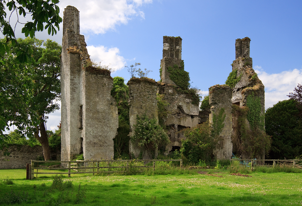 Castles of Leinster: Calverstown, Kildare (1)